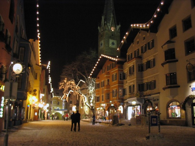 Kitzbühel by Night (self taken)